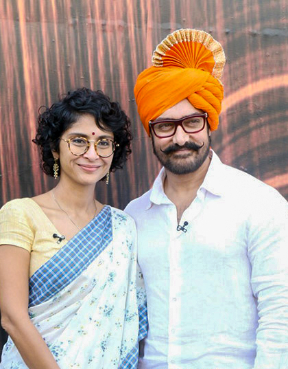 Aamir Khan & Kiran Rao promote Paani Foundation on the sets- of Chal Hawa Yeu Dya